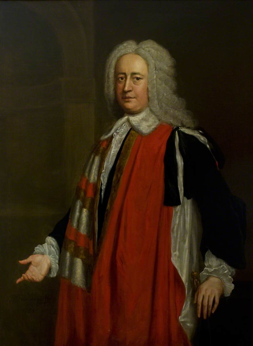 Portrait painting of William Henry Nassau de Zuylestein, 4th Earl of Rochford (1717-1781), three quarter length, in peer's robes, Ambassador to Madrid and Versailles and Secretary of State, signed and dated 'B. Dandridge pinxit 1735'. Oil on canvas, in gilt wood frame, moulded with trailing flowering branches between shaped oblong medallions. "William Henry Nassau de Zuylestein, 4th Earl of Rochford was born on 17 September 1717 at St. Osyth, Essex, England. He was the son of Frederick Nassau de Zuylestein, 3rd Earl of Rochford and Lady Bessy Savage. He married Lucy Yonge, daughter of Edward Yonge and Lucy Chetwynd, in 1740. He died on 28 September 1781 at age 64. He was invested as a Knight, Order of the Garter (K.G.). He gained the title of 4th Earl of Rochford.